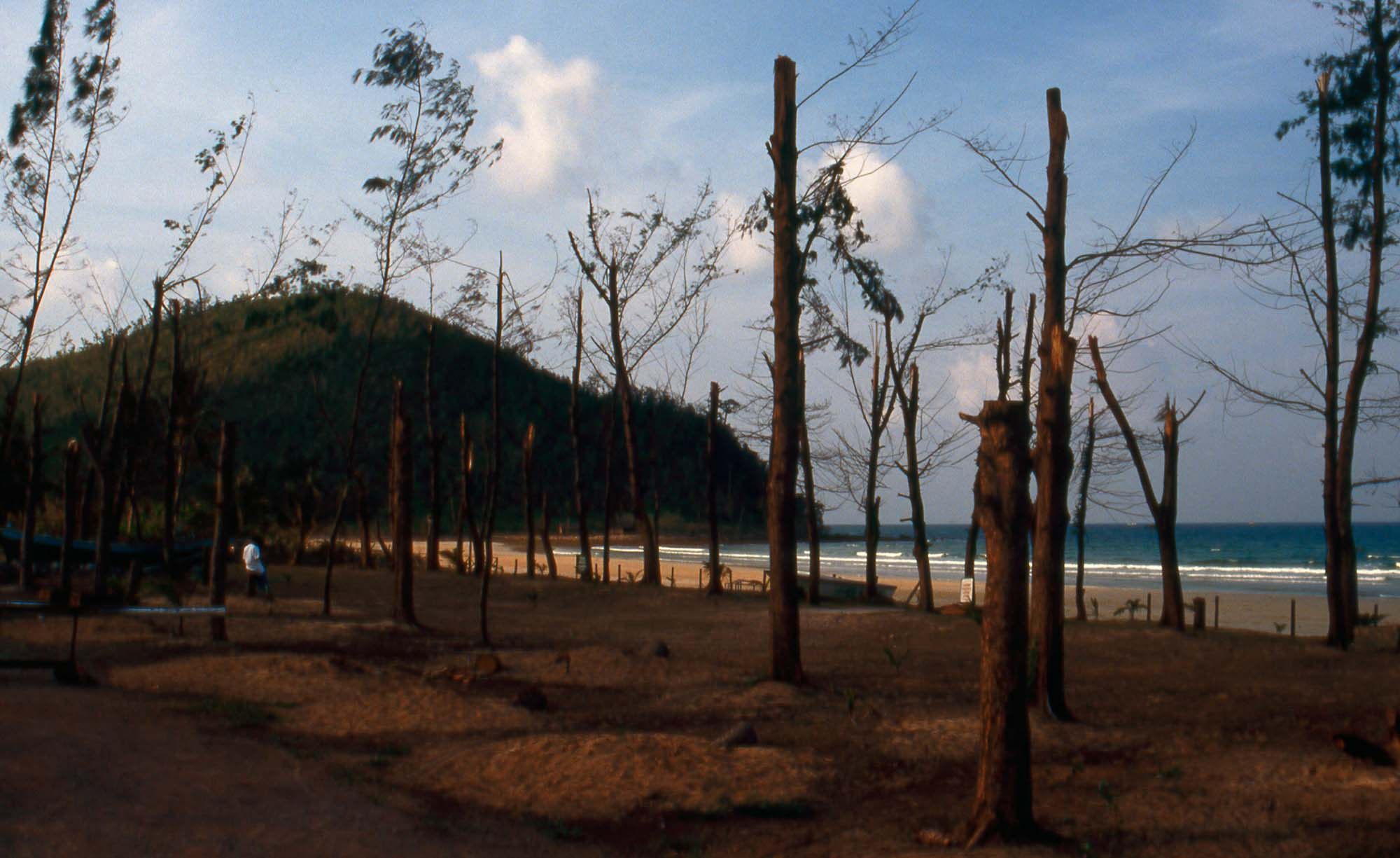 Damage of the typhoon Gay in November 1989 in the Thai province Chumphon. Photo shows the destroyed Chumphon Cabanas Beach Resort about 16km north of the town Chumphon.